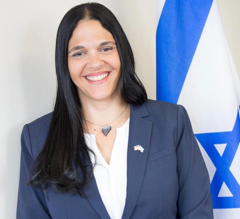 Israeli Diplomat Anat Sultan-Dadon